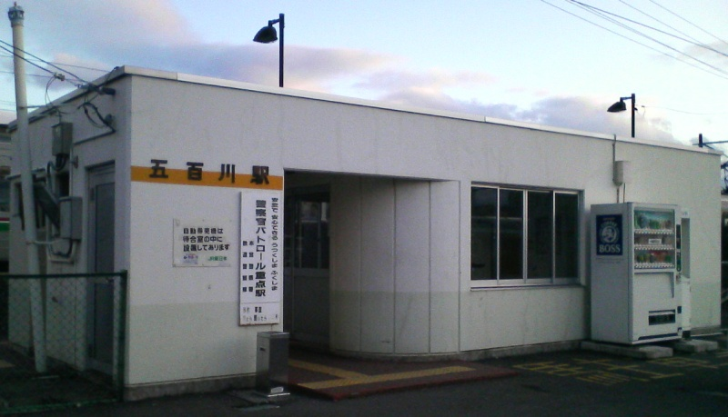 Gohyakugawa Station, Motomiya, Fukushima, Japan